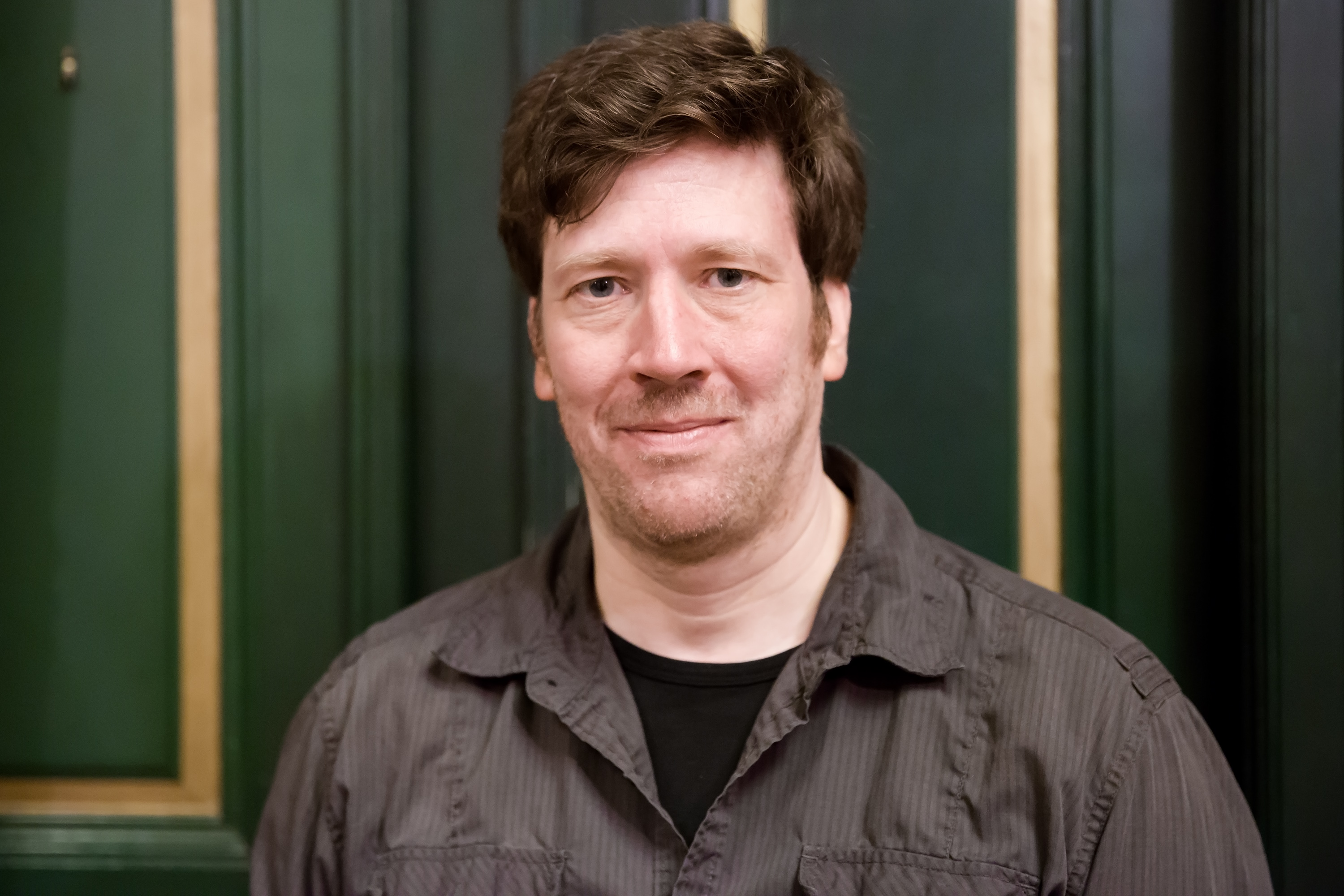 O. Lendl after the premiere of Match Me If You Can with Nina Hartmann at Metropol in Vienna, Austria.